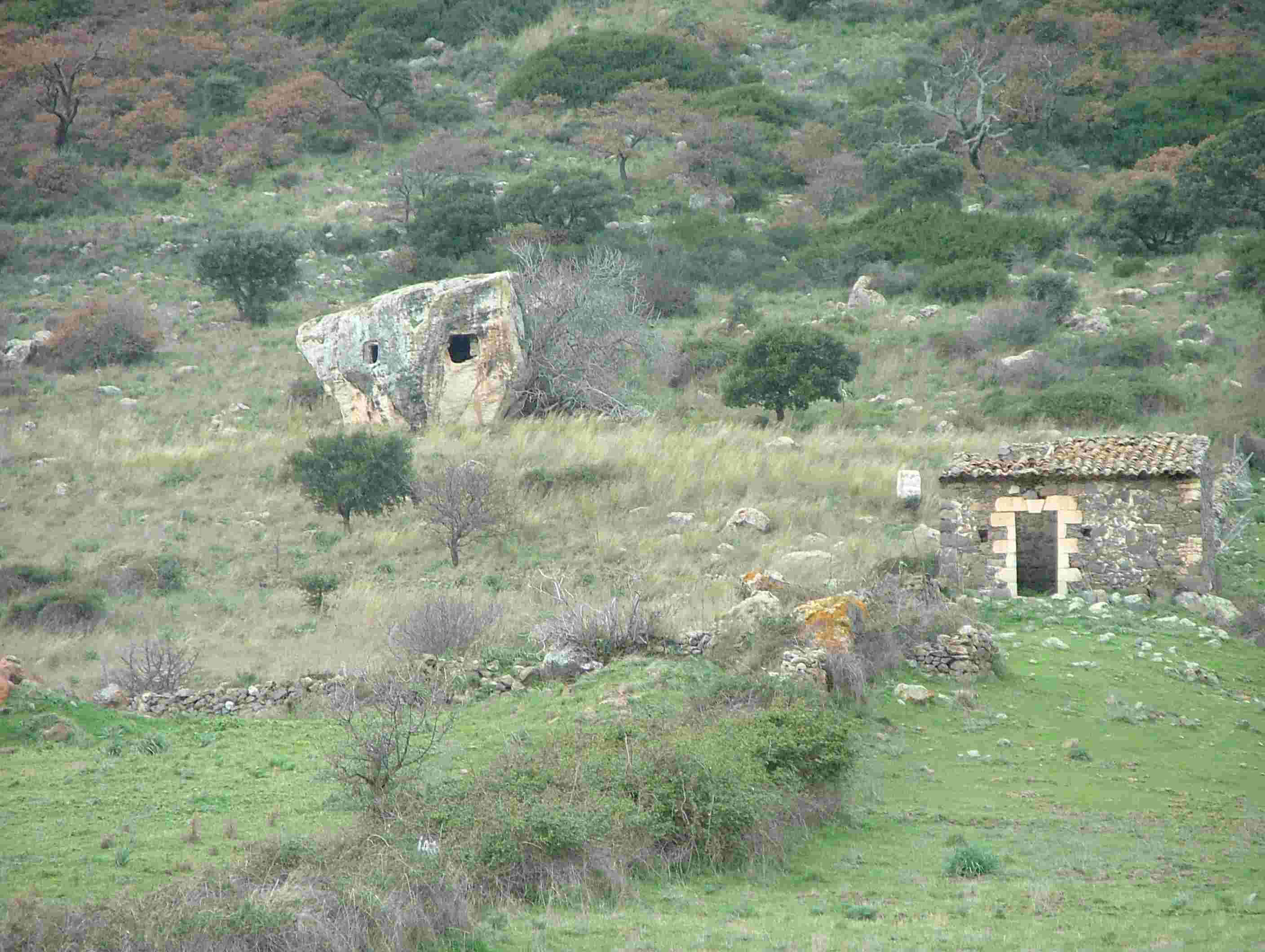 Su Crastu de Santu Eliseu (in italiano, il Sasso di Sant'Elia, foto realizzata dal Pittore Giovanni SEU. Questo sito si trova ai pedi del Monte Santo, nell'agro di Mores confinante con Bonnannaro.